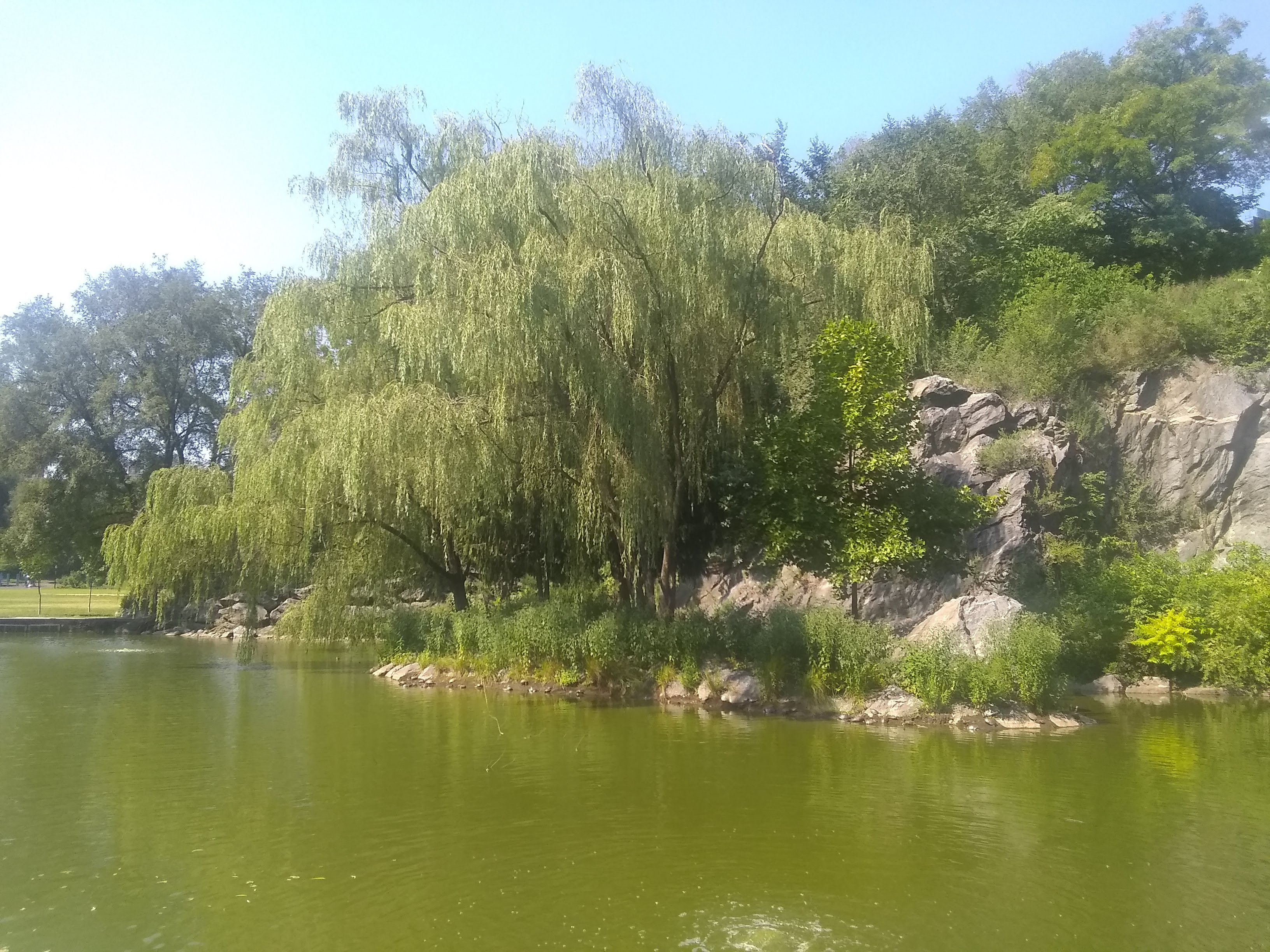 Morningside Park in Manhattan, New York